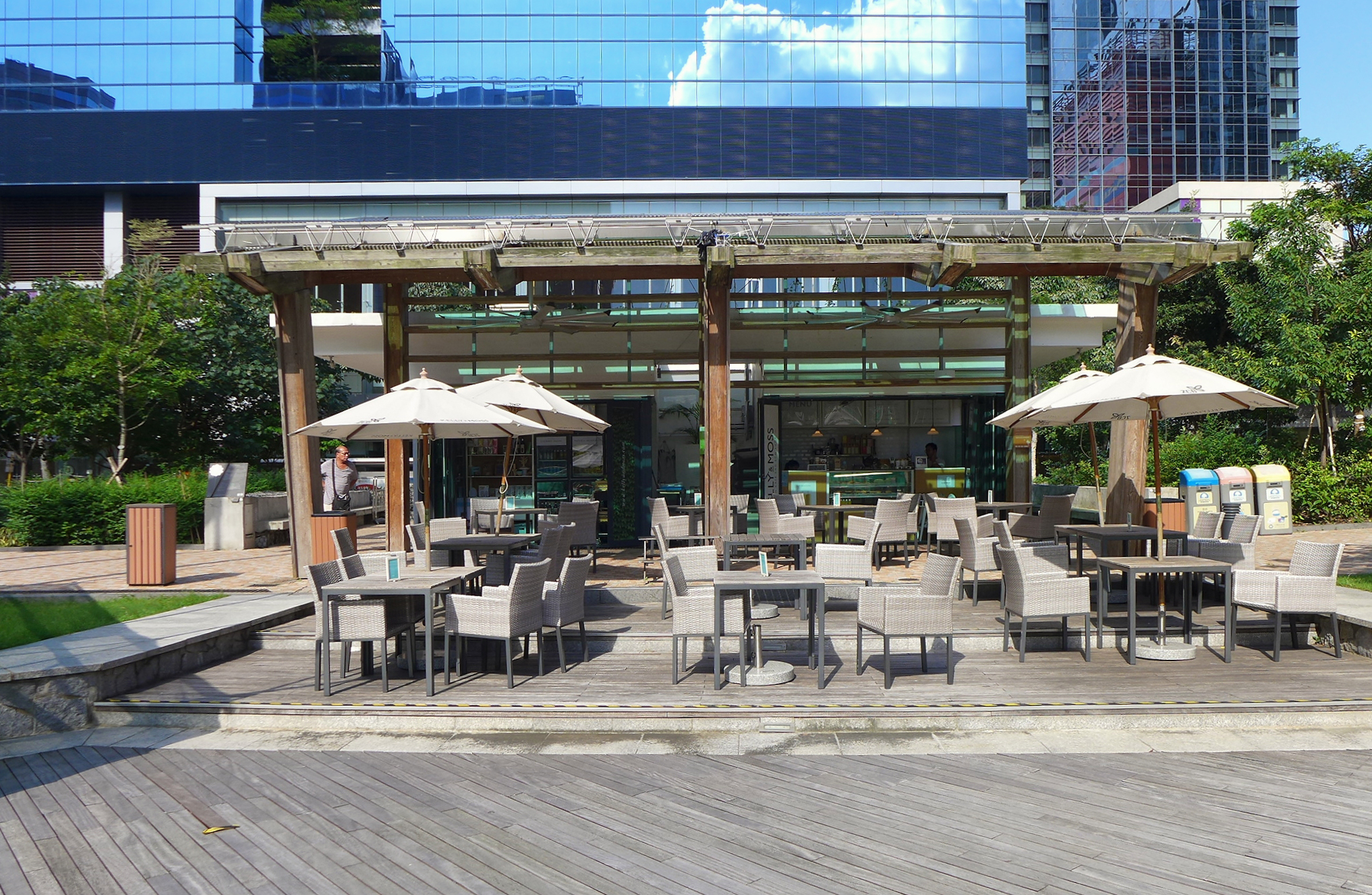 CIC Zero Carbon Building Cafe